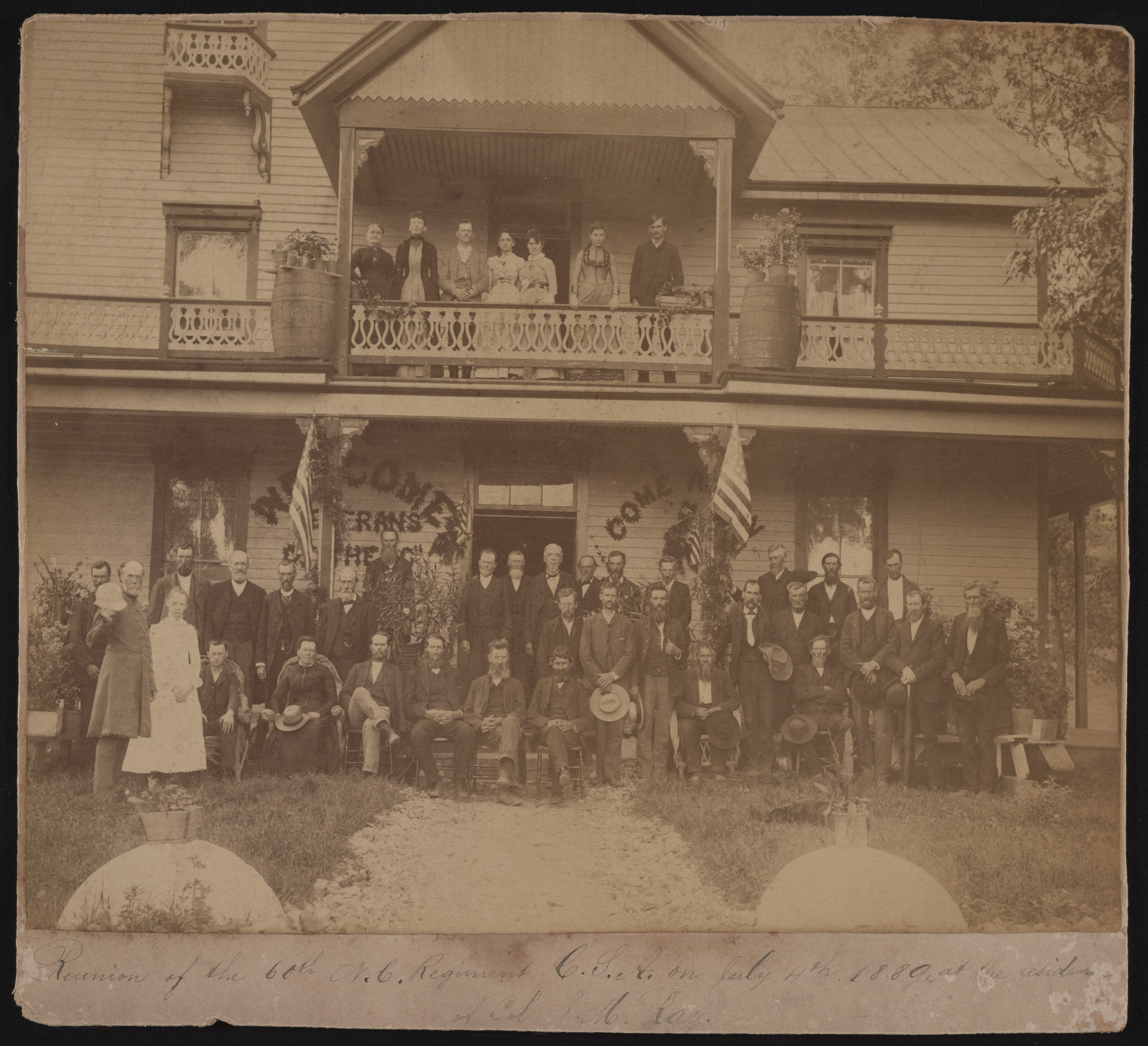 Title: 1889 reunion of 60th North Carolina Infantry Regiment] / Brown, 7 & 9 Patton Avenue, Asheville, N.C Abstract/medium: 1 photograph : print ; sheet 19 x 23 cm, mount 21 x 24 cm.